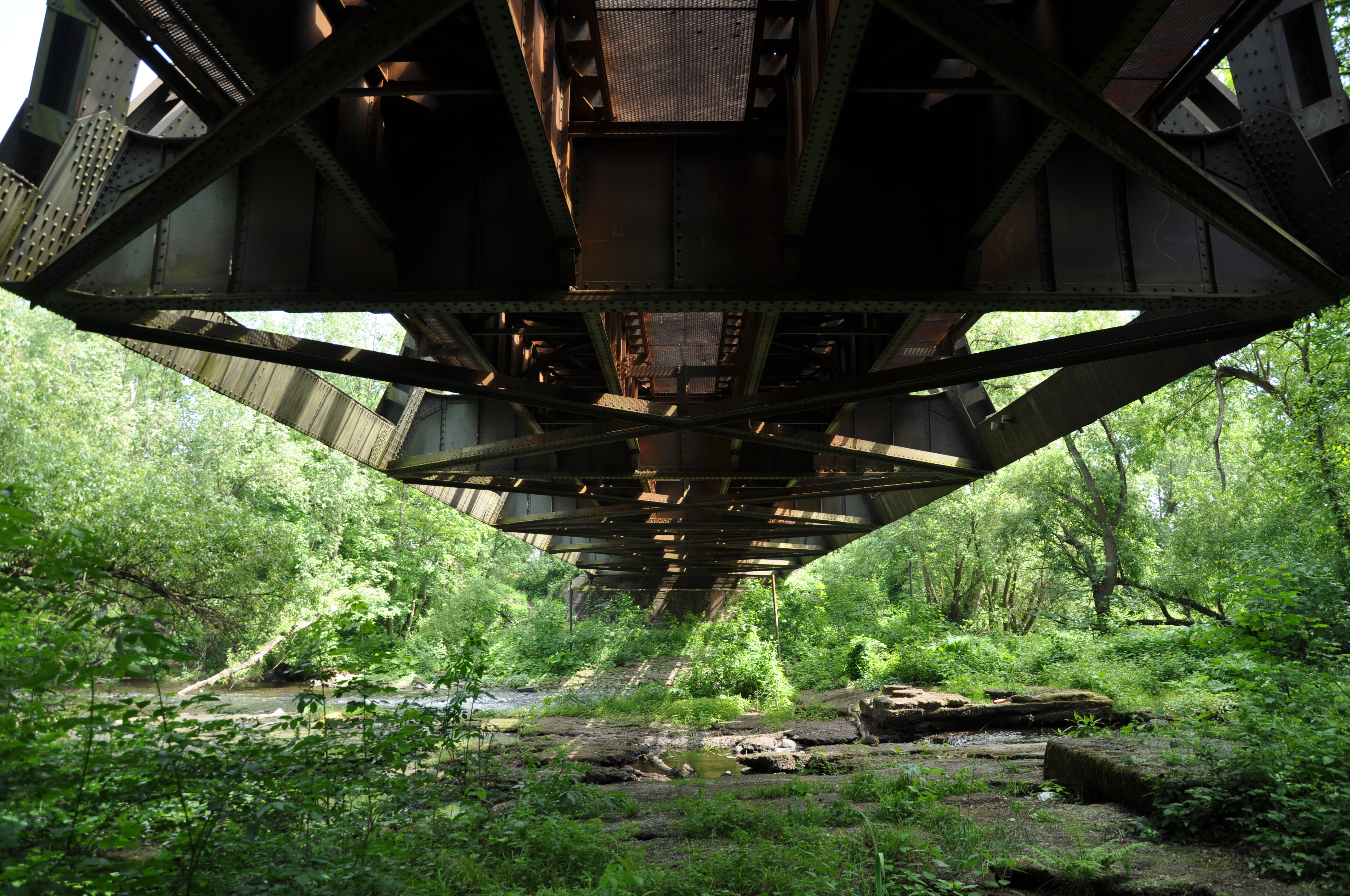 Dreigurtbrücke in Düren, view from below.